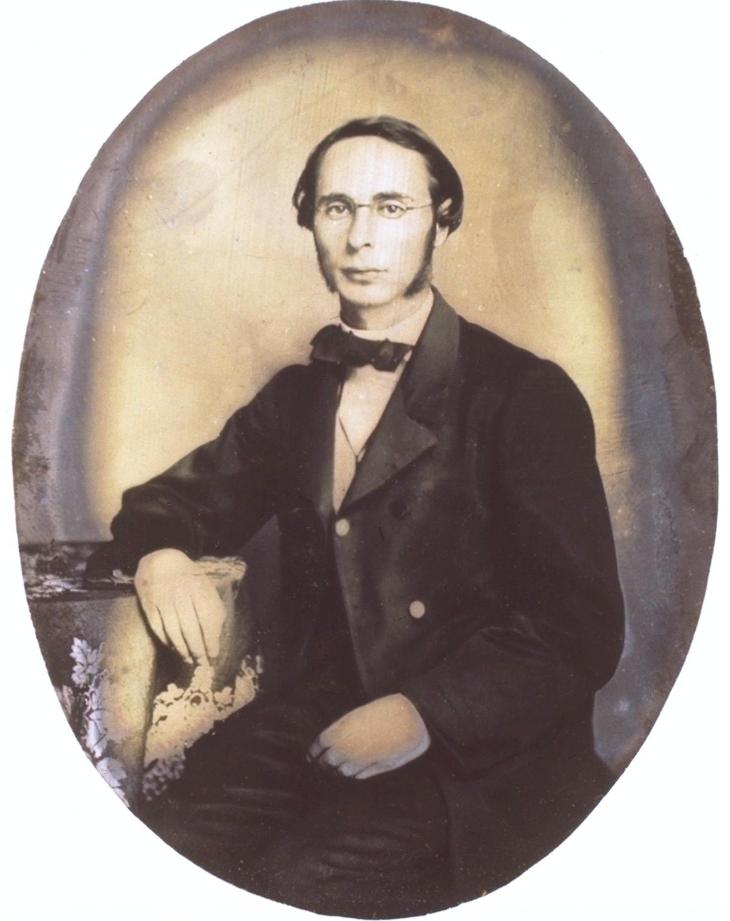 Hermann Herlitz (1834–1920) at the Basel Mission, Switzerland, where he studied from 1859 to 1862